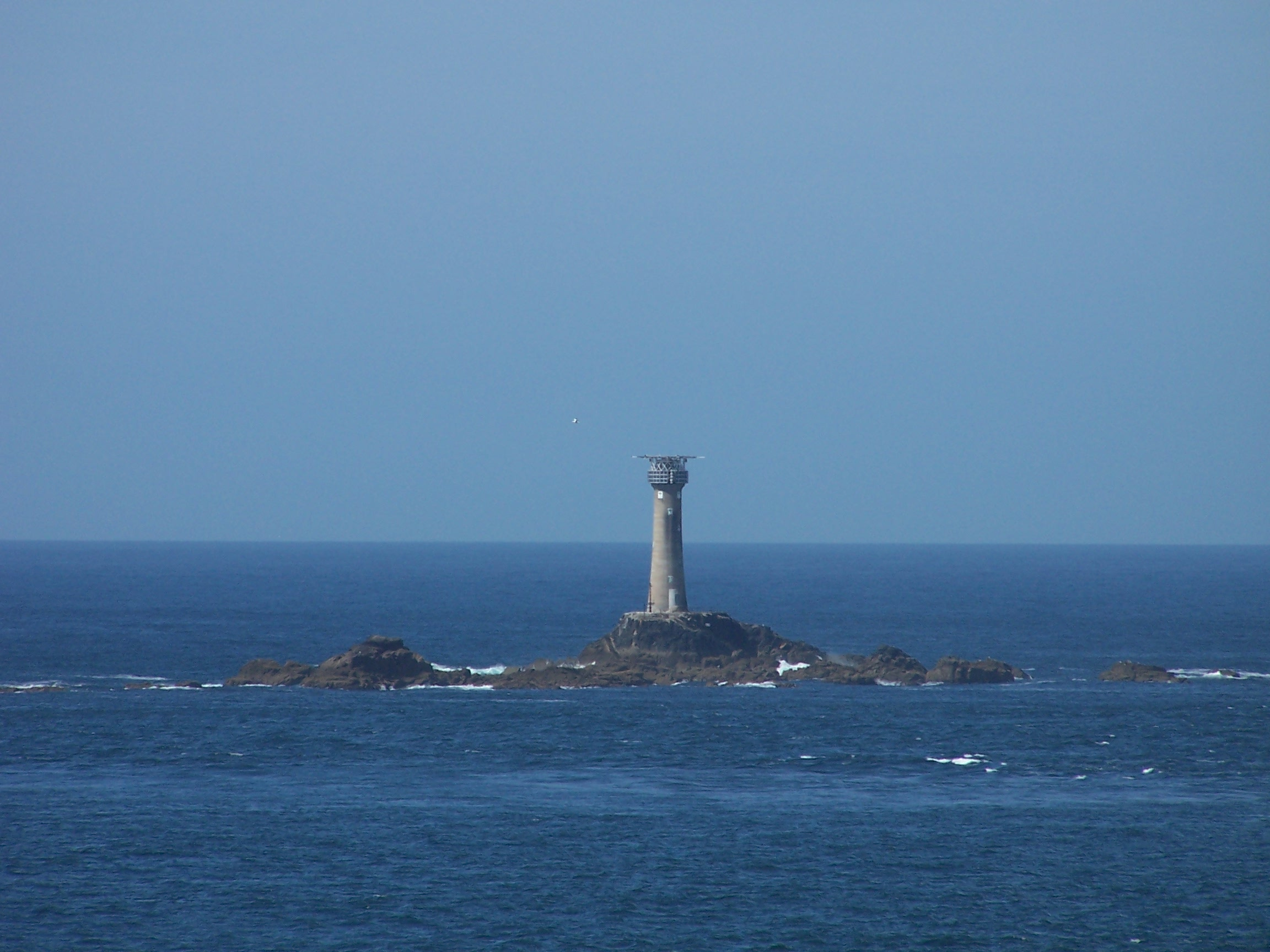 Longships lighthouse, off Land's End, Cornwall, England August 2006